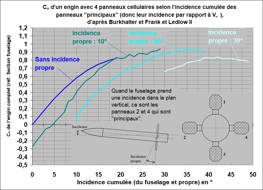 Cn of an ogivo-cylindrical rocket with 4 grid fins, according to the cumulative incidence of the 2 principal grid fins. After Non-linear aerodynamic analysis of grid fin configuration, Burkhalter and Frank, AIAA-13th-applied-aerodynamics.pdf [3] and the thesis of Ledlow II Integration of Grid Fins for the Optimal Design of Missile Systems [4]. The curves are drawn according to experimental values.